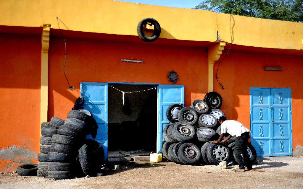 Workshop in Nouakchott